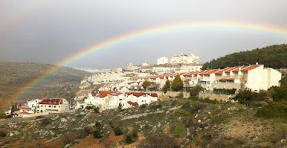 The town of Efrat with a rainbow over it.